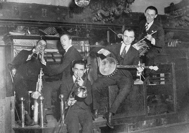 (From original upload): "Louisiana Five jazz band on a small bandstand. Probably 1919. Alcide Nunez, clarinet & saxophone; Joe Cawley, piano; Charlie Panelli, trombone; Karl Berger, banjo; and Anton Lada, drums."